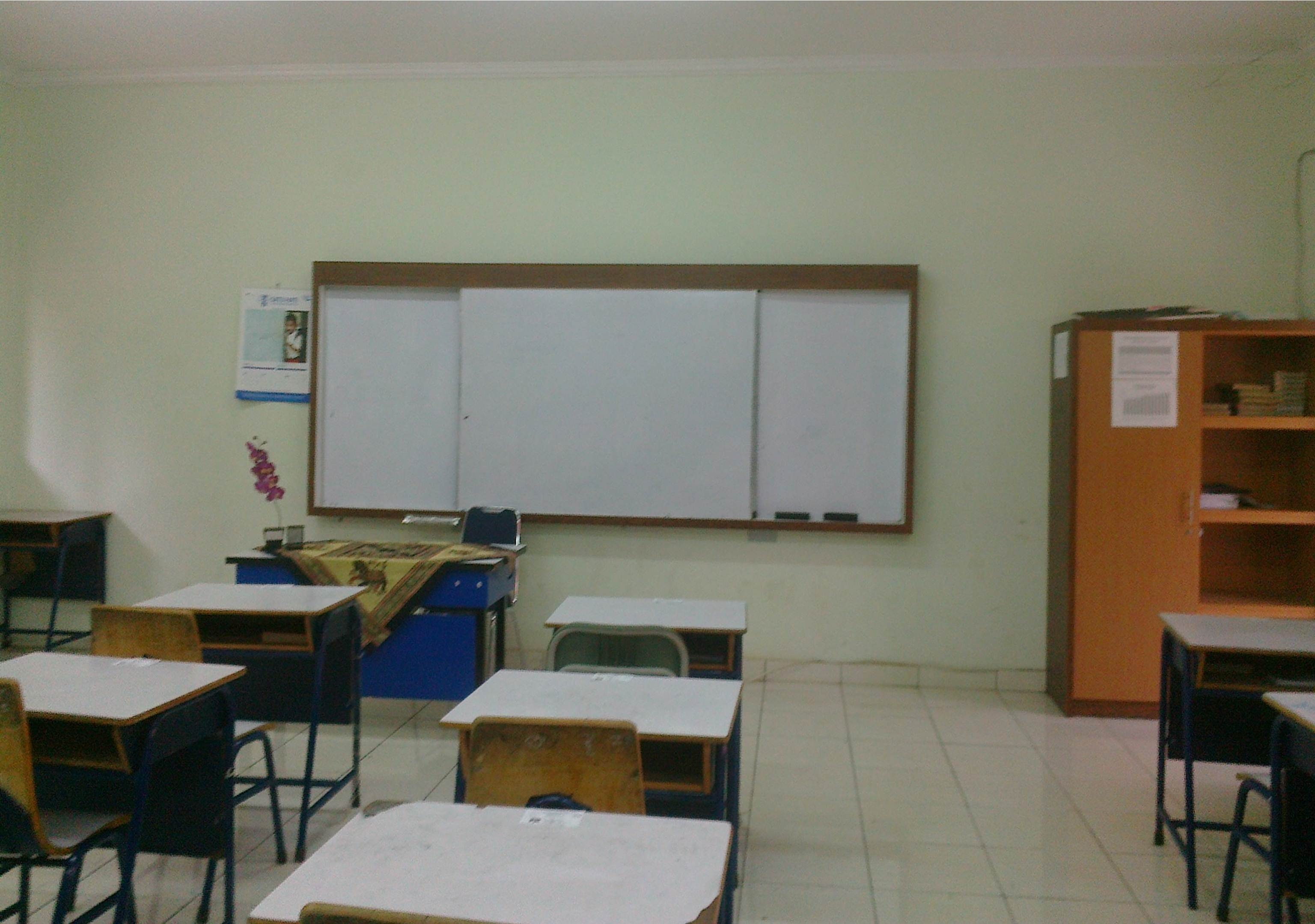 Classroom of State Junior High School 1 Jakarta by Adjiebrotot